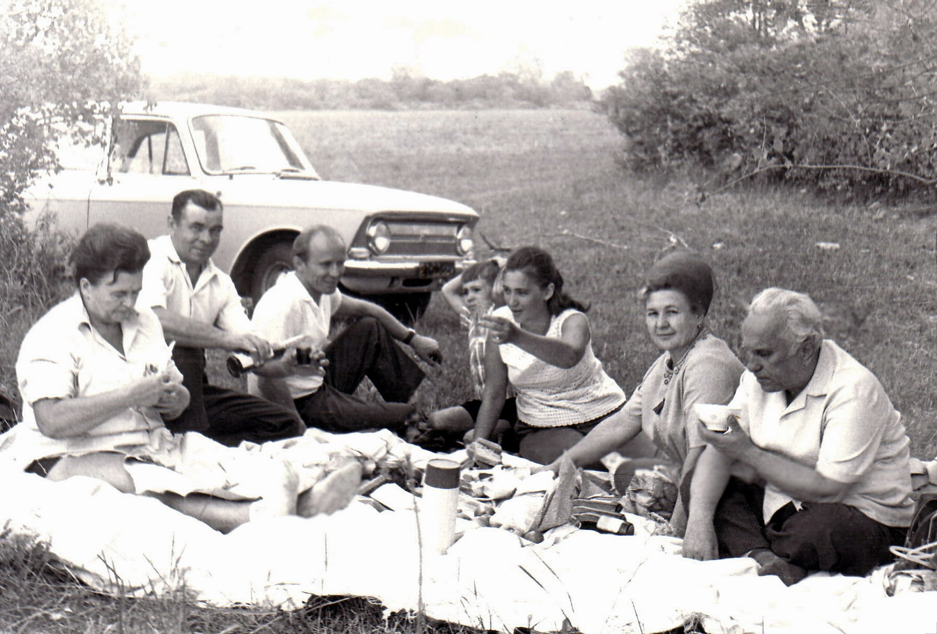 At Ilek River after fishing (1976): Aleksander Adolfovich Burba is first from right and his wife, Zoya Vasilyevna, is first from left.